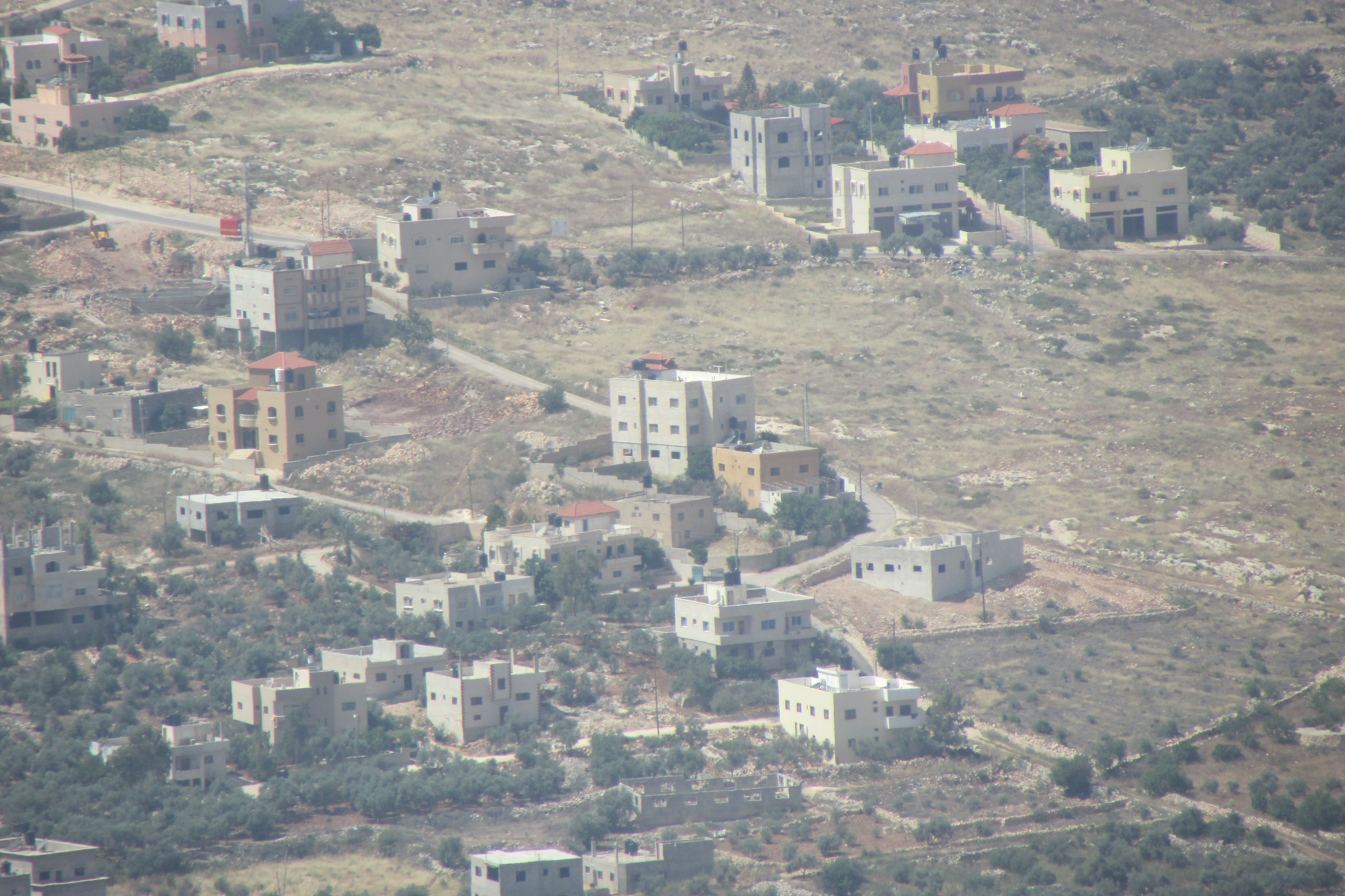 The eastern houses of Talluza